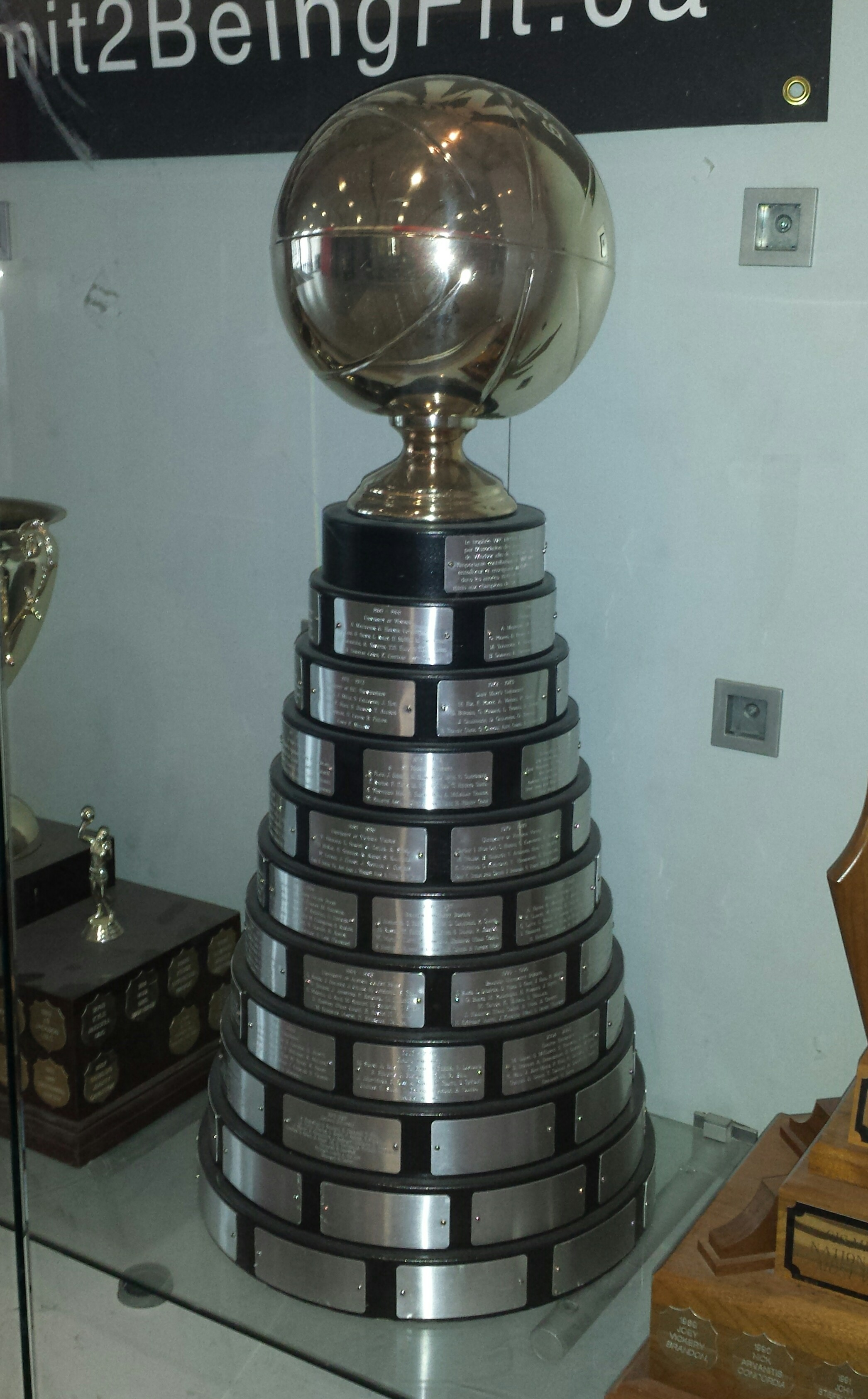 CIS mens basketball trophy 2013